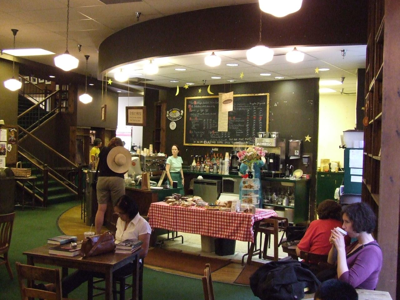 The ground floor coffee shop at the Tattered Cover Book Store in the Cherry Creek North neighborhood of Denver, Colorado. The entire store closed in 2006 and moved to the East Colfax location, which is the store's current location as of 2018-02-28.